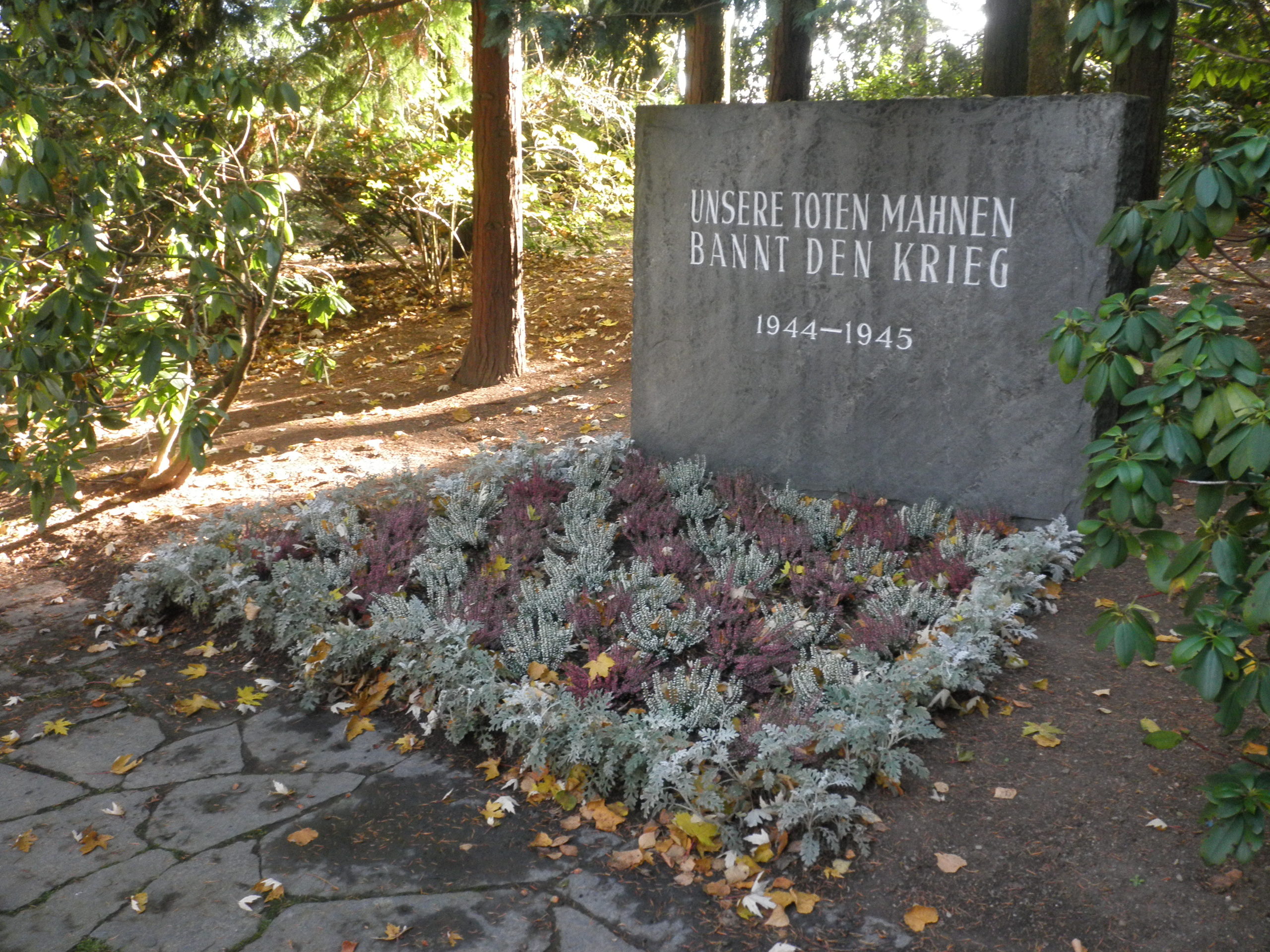 Monument for Bombing Victims in Plauen in Saxony